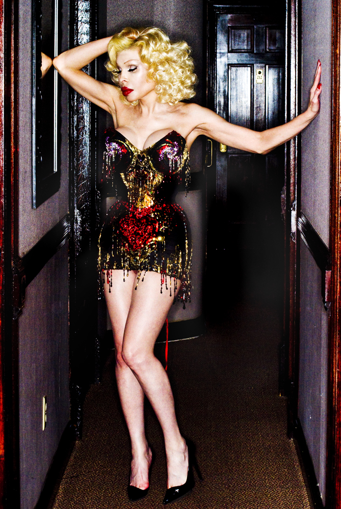 Amanda Lepore is wearing a corset made by Mr Pearl's pupil